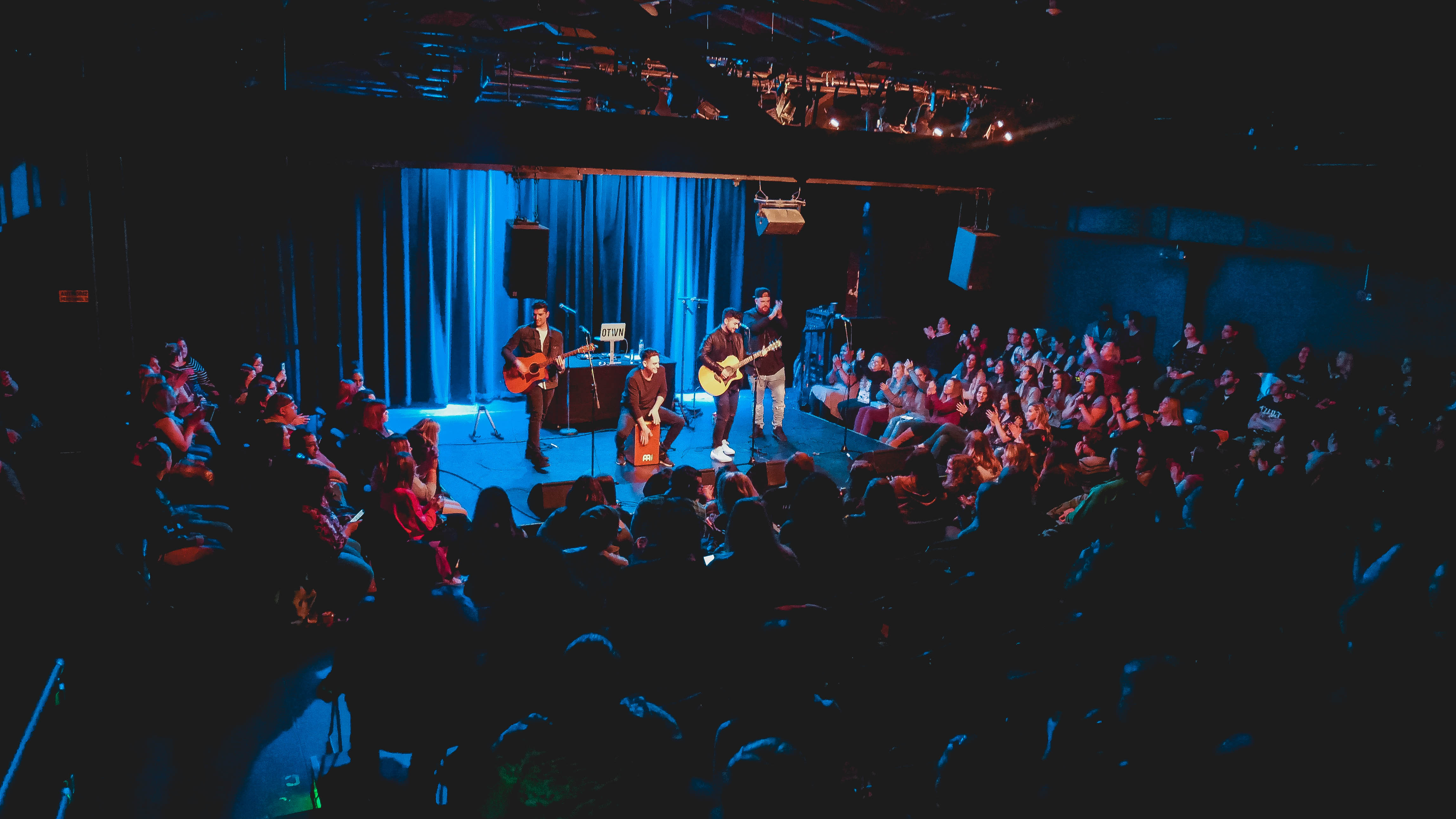 Kicking Sunrise performing at "Stage One at FTC" in Fairfield, CT.